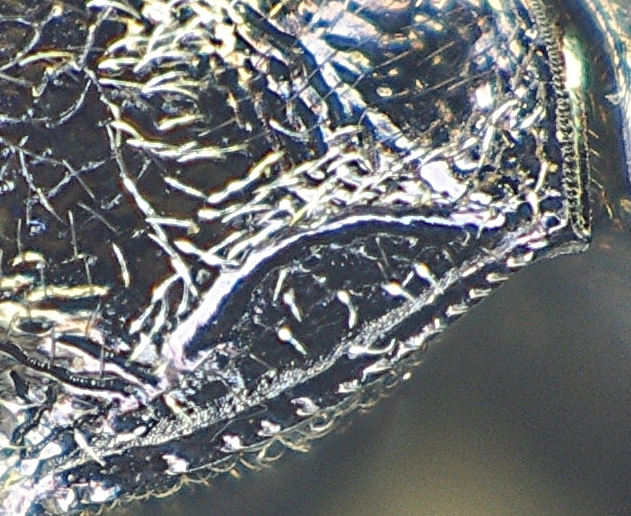 Coraebus rubi from Eastern Hungary, hind edge of pronotum with keel